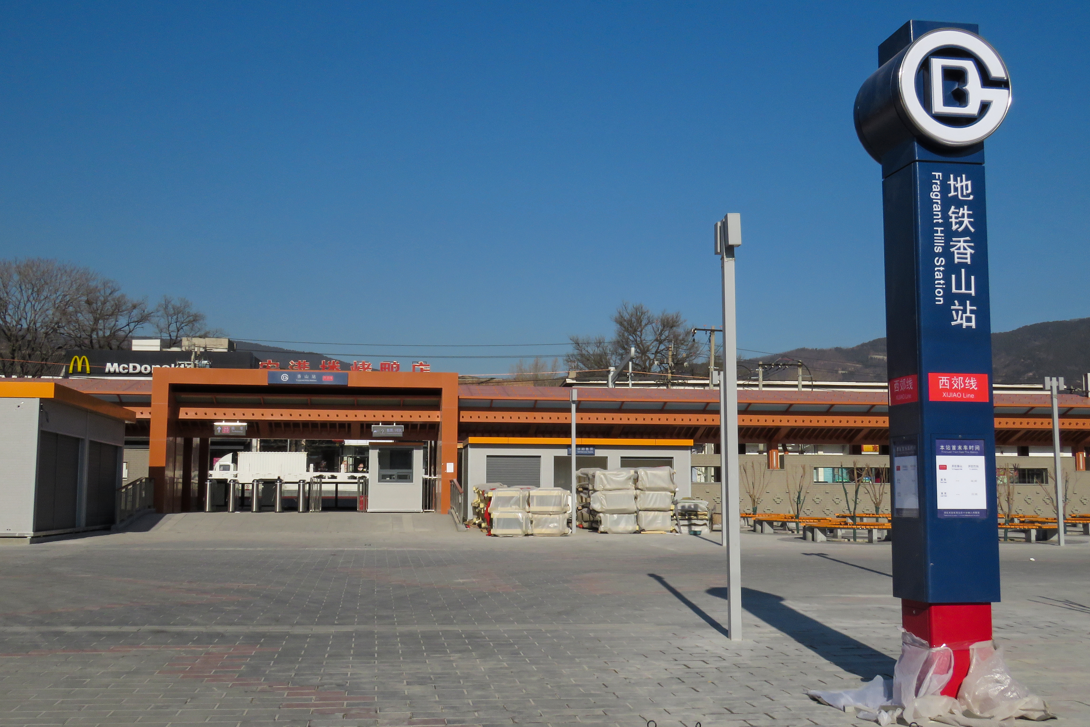 Yes, it uses Beijing Subway logo, and the official line name is XIJIAO Line.